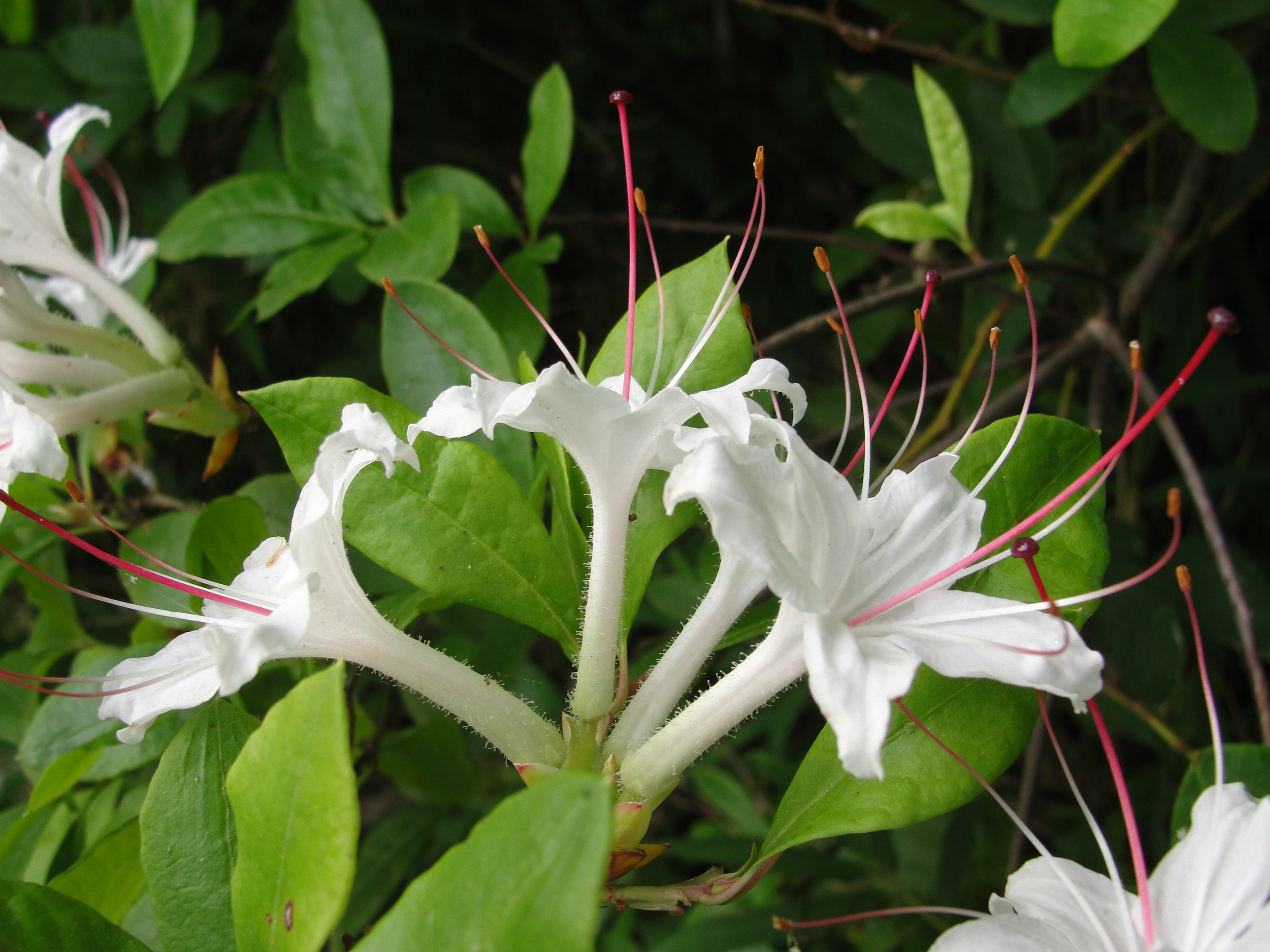 Found in Buncombe county, NC